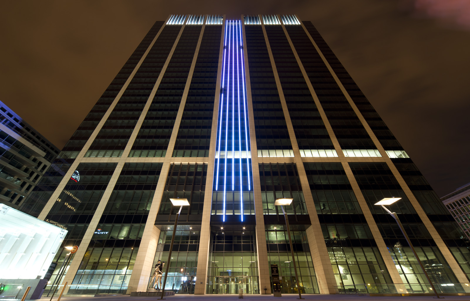 Finance Building